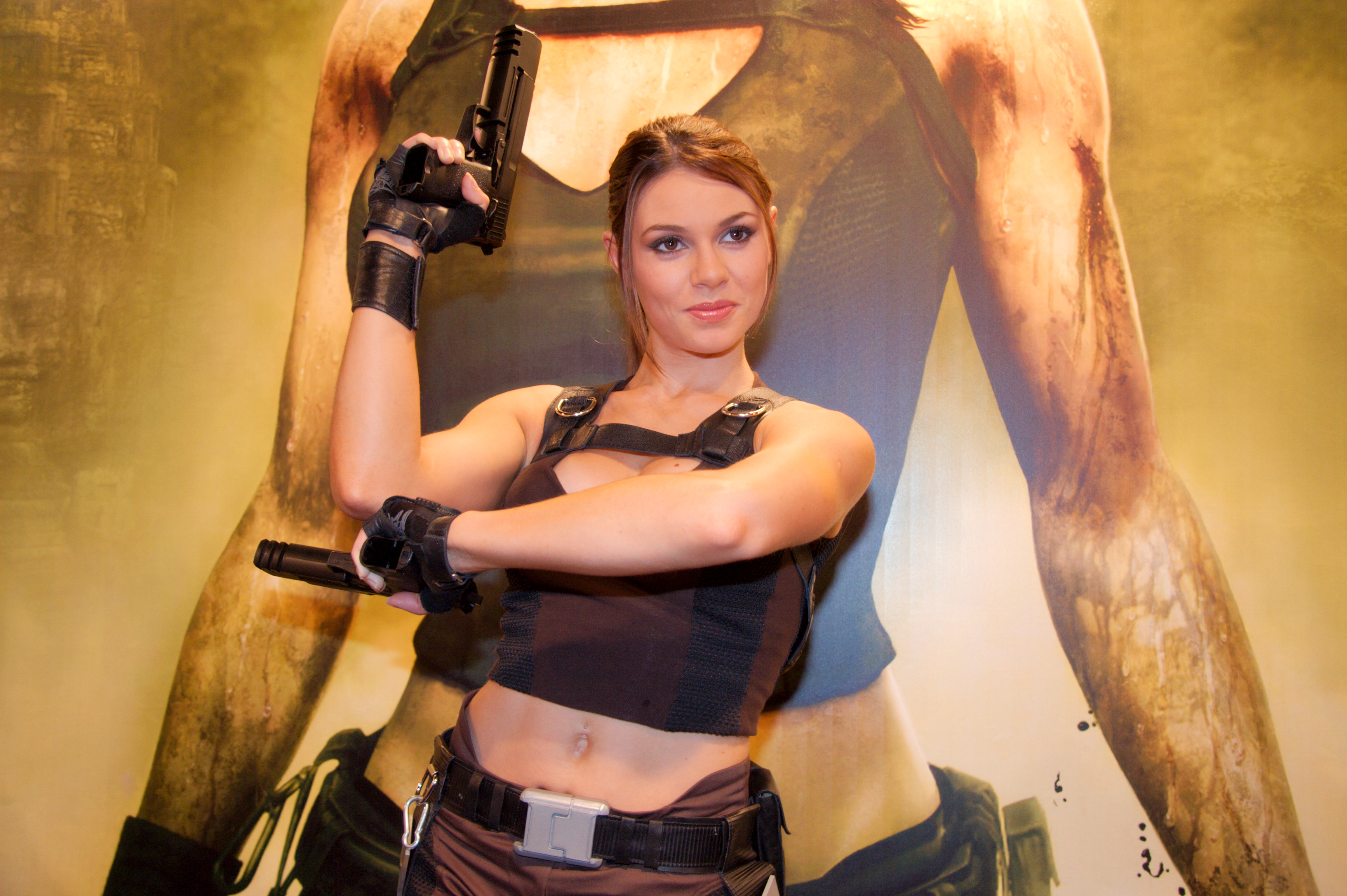 Alison Carroll, the official Lara Croft model for Tomb Raider: Underworld at Festival du jeu vidéo 2008 (Paris, France).